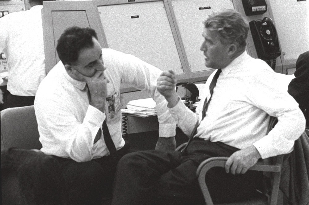 Dr. Wernher von Braun (Marshall Space Flight Center Director 1960-1970) and Dr. Rocco Petrone (Marshall Center Director 1973-1974) talk during a lull in the preparations of a Saturn 1 vehicle launch at Cape Kennedy's Launch complex 37 Control Center.